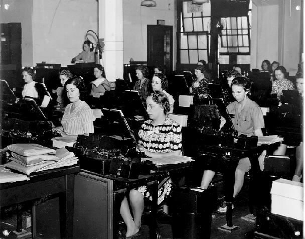 Cardpunch operations at U.S. Social Security Administration Original caption: "This is a picture of a few of the hundreds of cardpunch operators SSA employed throughout the late 1930s and into the 1950s to maintain Social Security records in the days before the advent of computers."